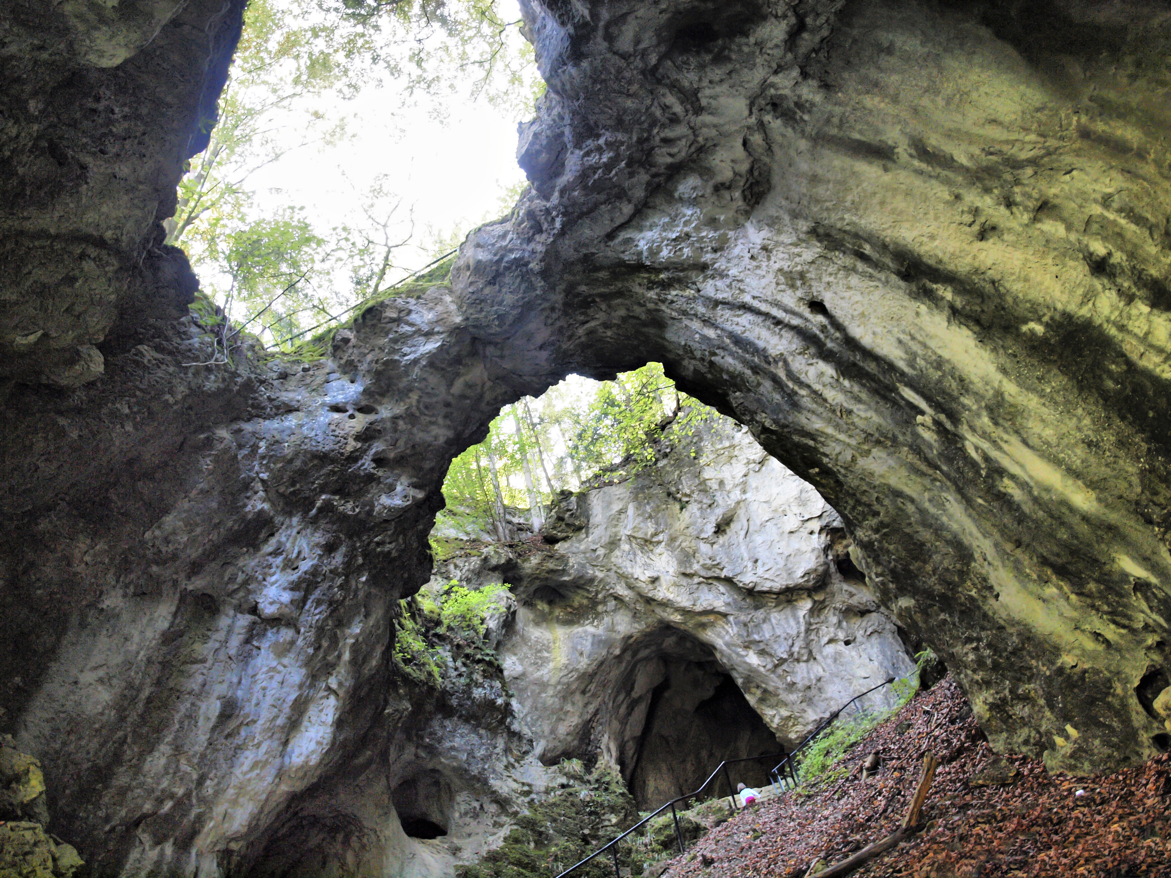 The cave Riesenburg in Frankonia Germany